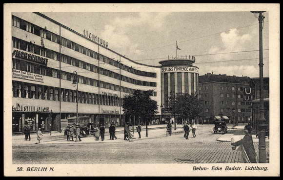 Berlin Gesundbrunnen Behmstraße Kino Lichtburg 1931